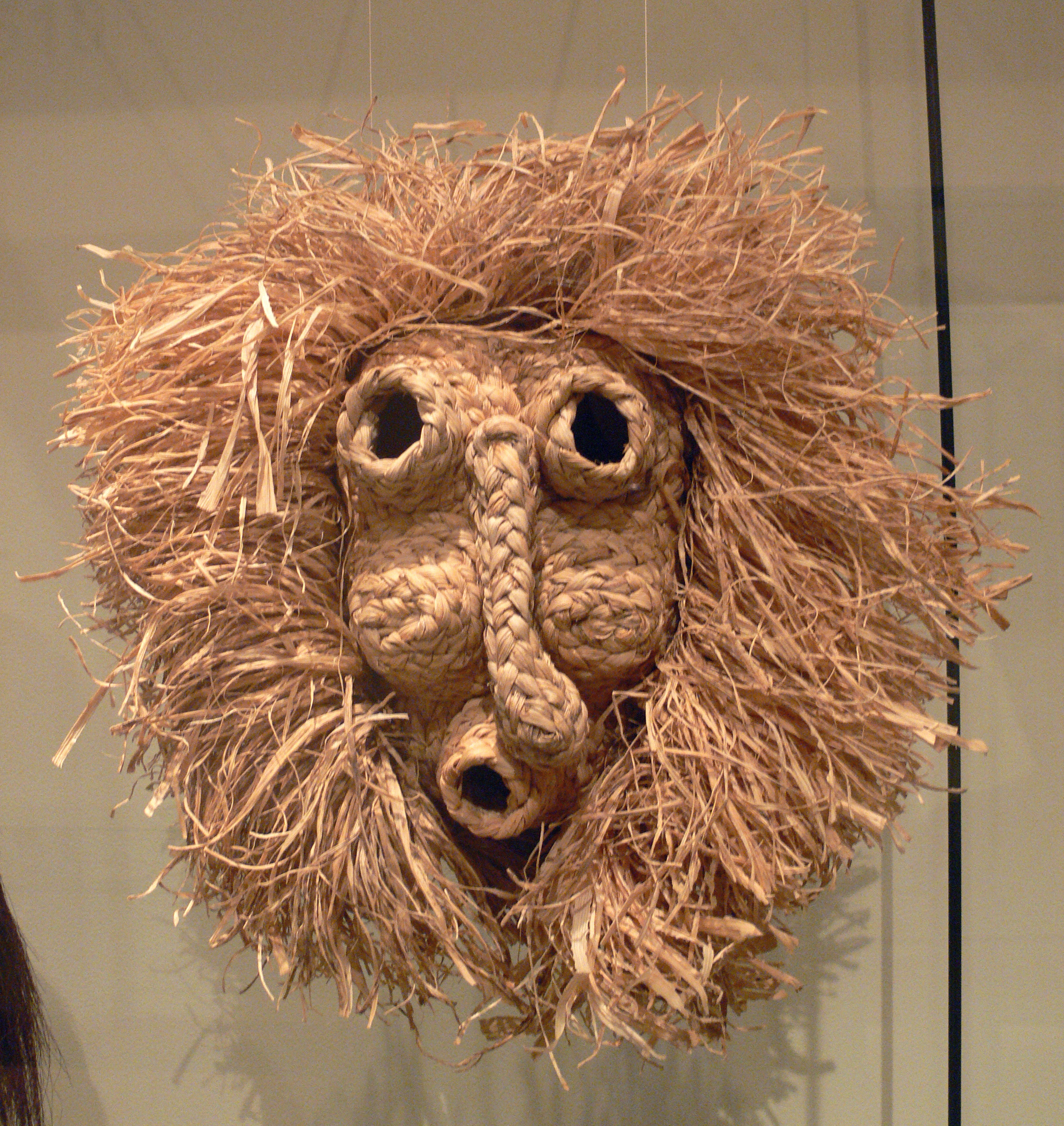 Iroquois Cornhusk Society mask; North America department, Ethnological Museum, Berlin, Germany